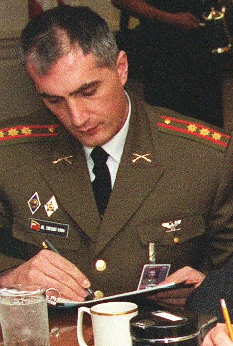 Secretary of Defense Donald H. Rumsfeld (right) meets in his Pentagon office with Minister of Defense David Tevzadze (second from right), of the Republic of Georgia, on March 16, 2001. Georgian Ambassador Tedo Japaridze (second from left) and Lt. Col. Archil Tsintsadze, the Georgian defense attaché, joined Rumsfeld and Tevzadze as they discussed a range of regional security issues of interest to both nations.